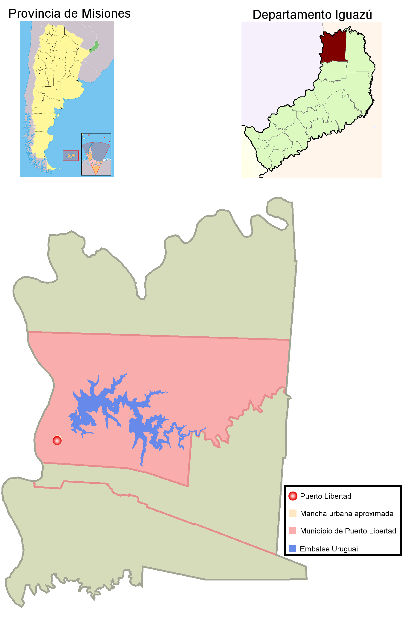 A map showing municipio of Puerto Libertad in Iguazú departament, Misiones province, Argentina. Also shows Puerto Libertad town location, its urban sector and Uruguaí reservoir. Created with GIMP.